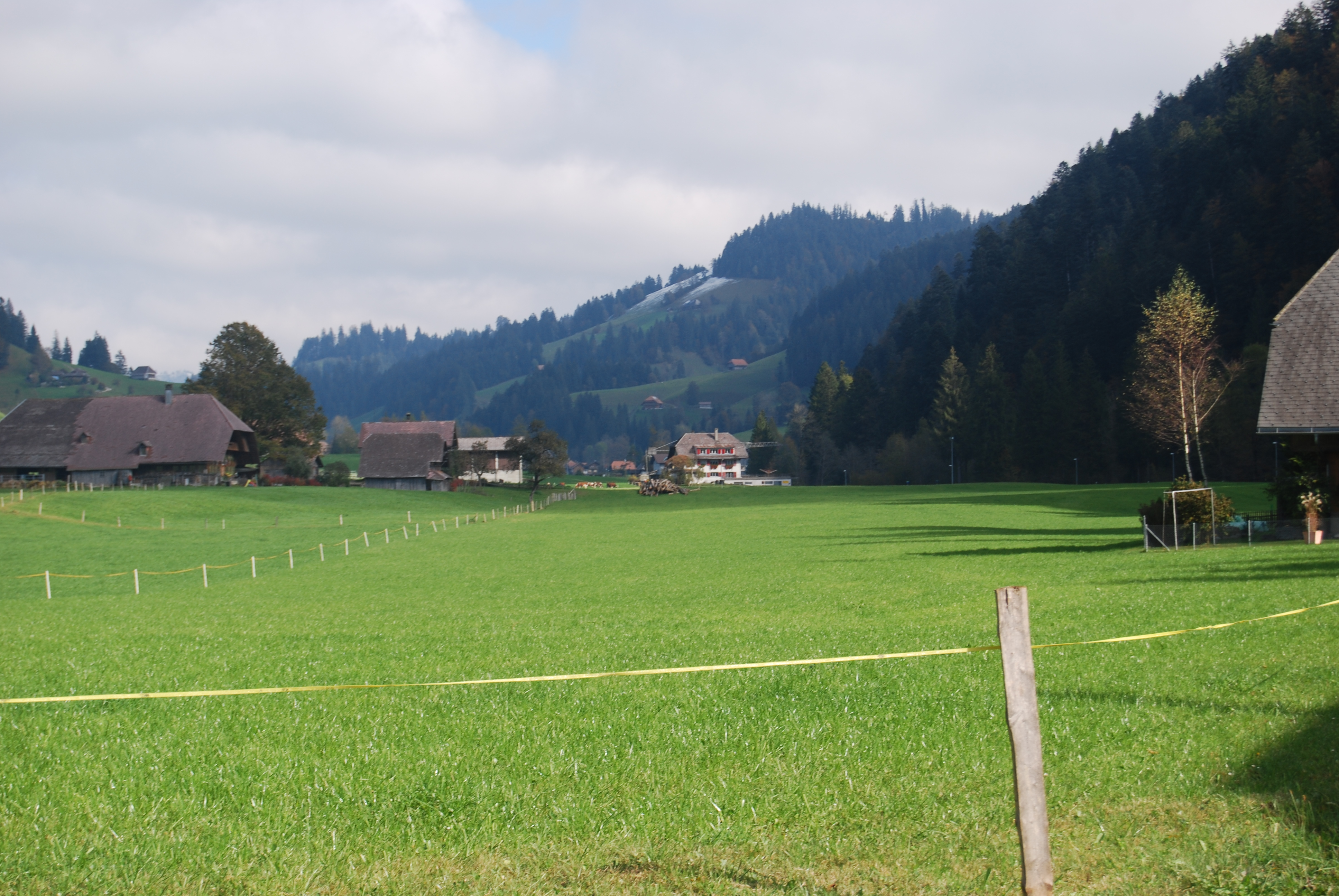 View to the Napf region from Trub, canton of Bern, SwitzerlandEsperanto: Rigardo al direkto de la regiono Napf ek de Trub, Kantono Berno, Svislando